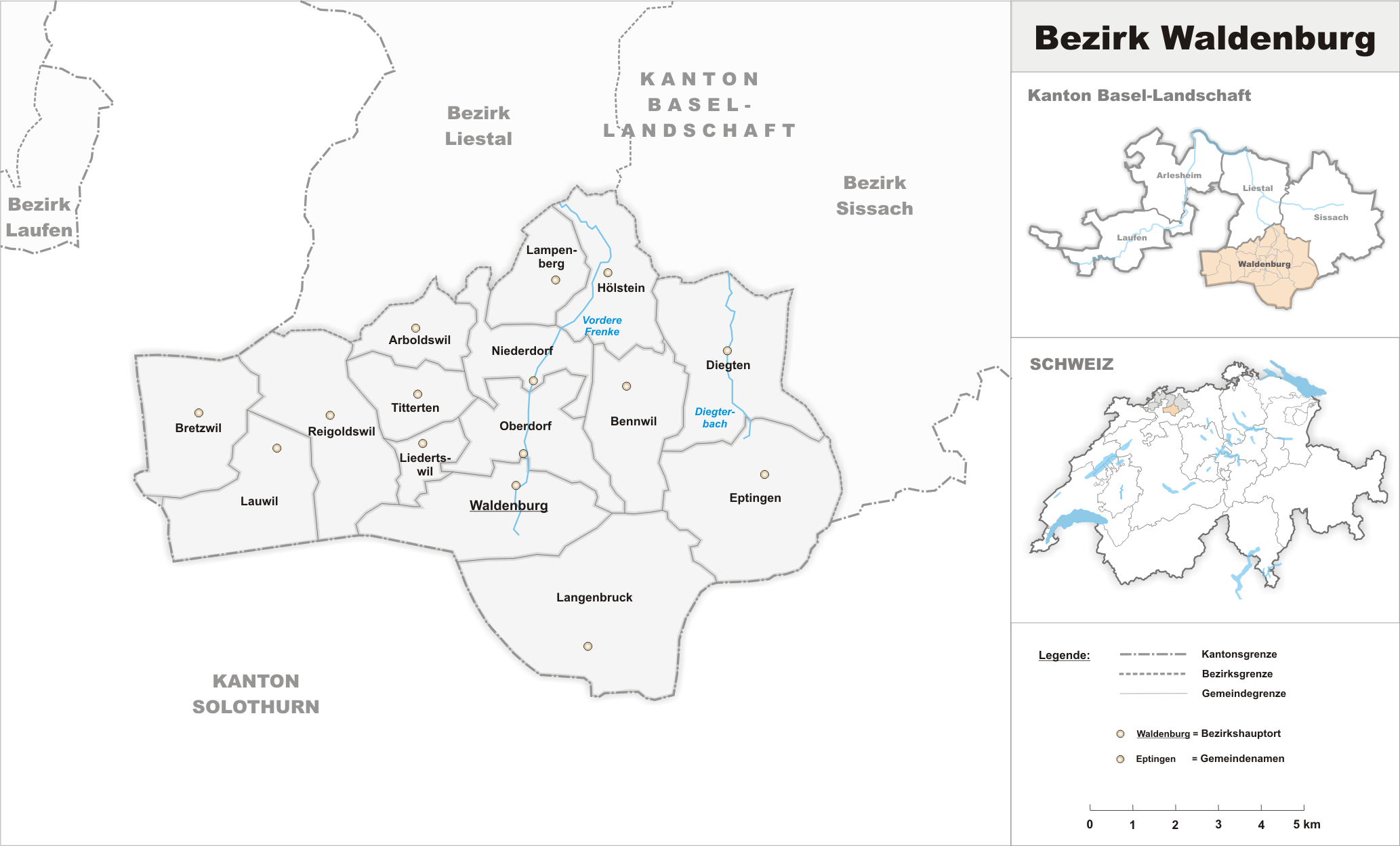 Municipalities in the district of Waldenburg